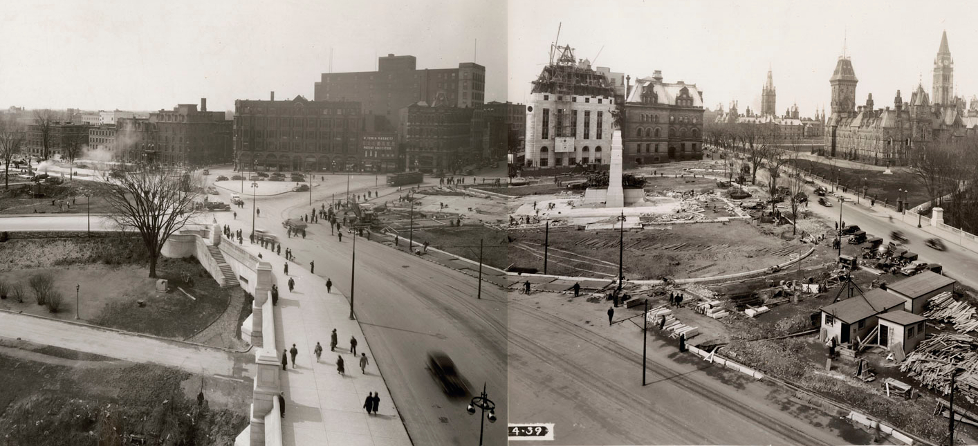 Panorama of Confederation Square showing Elgin Street frontage, April 28, 1939, with new Central Post Office under construction. Ottawa, Ontario, Canada.